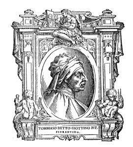 Illustratio from "Le Vite" by Giorgio Vasari, edition of 1568. For the artist portrayed see filename